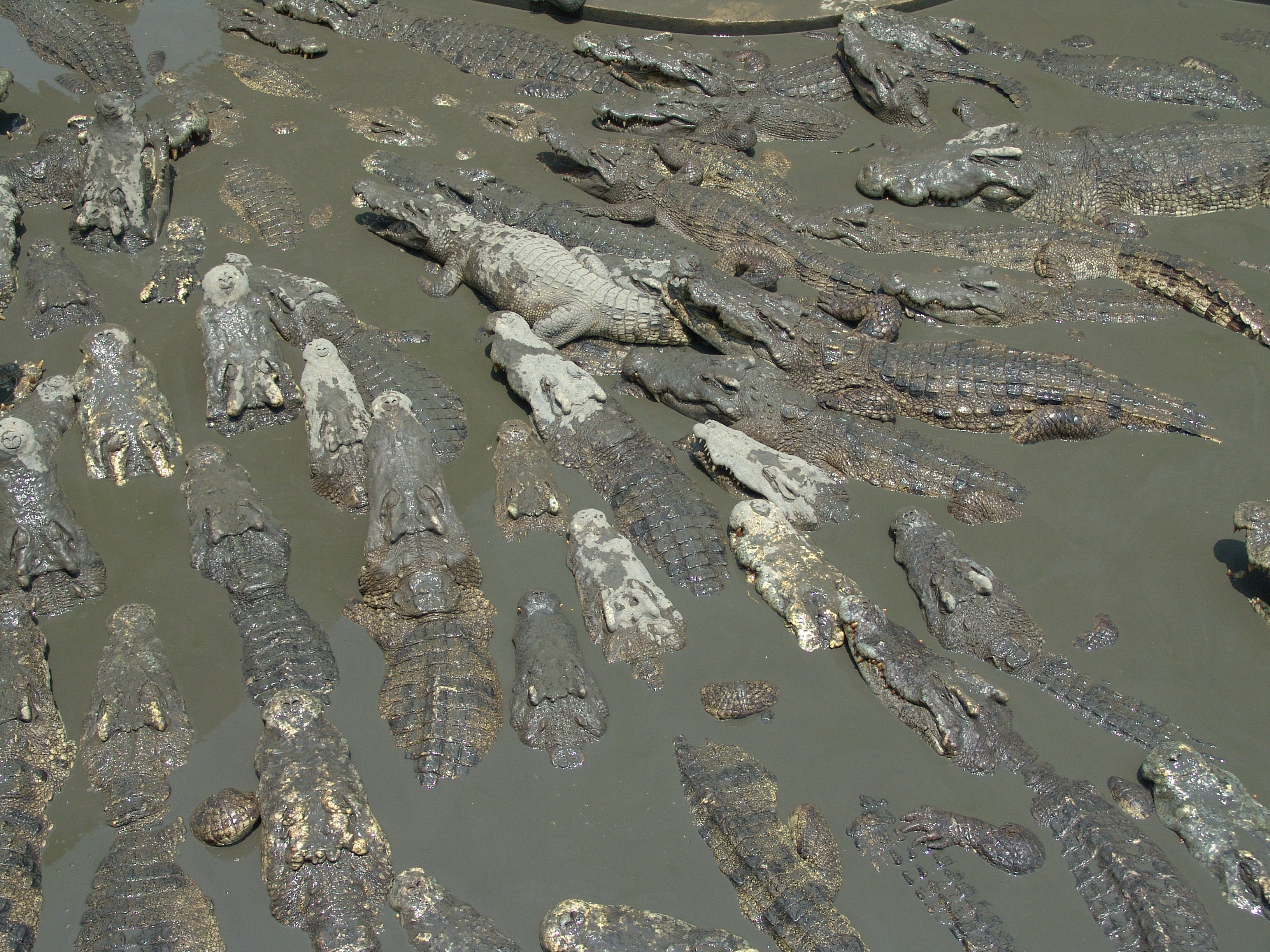 Crocodile Farm near Bangkok, April 2005, own work